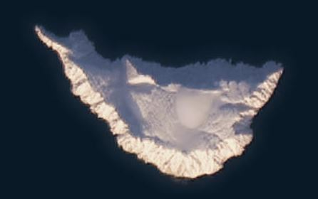 Jeanette - Landsat